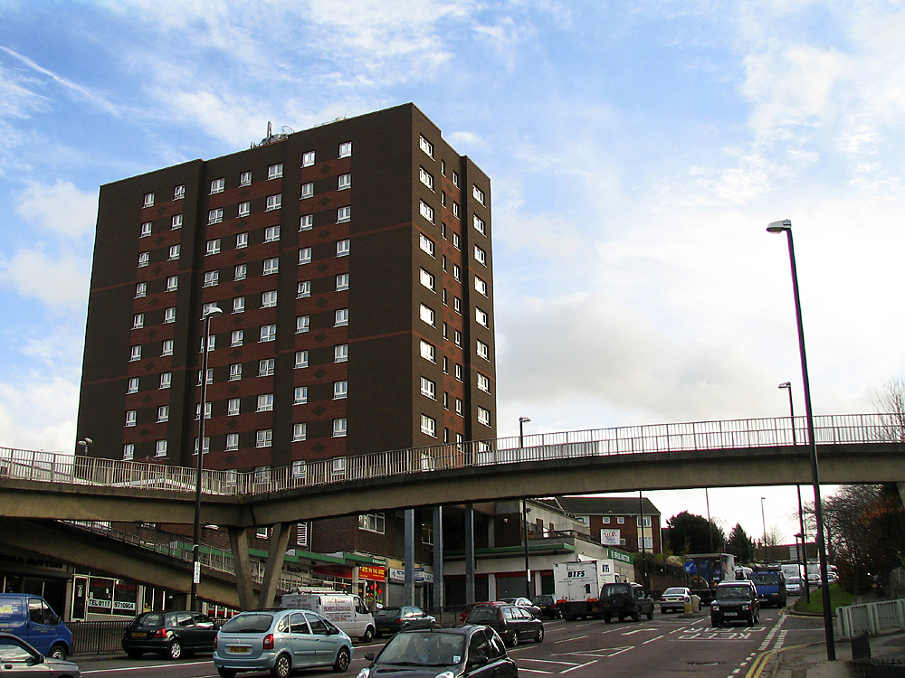 The view east up Brislington Hill in Bristol.